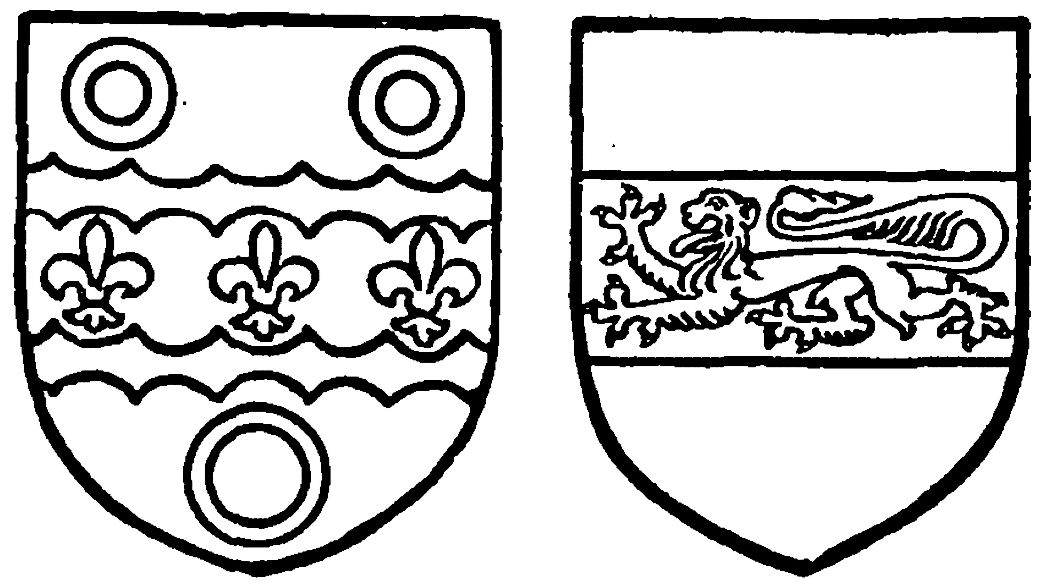 The joint family coats of arms of the families Cherry (left) and Garrard (right)